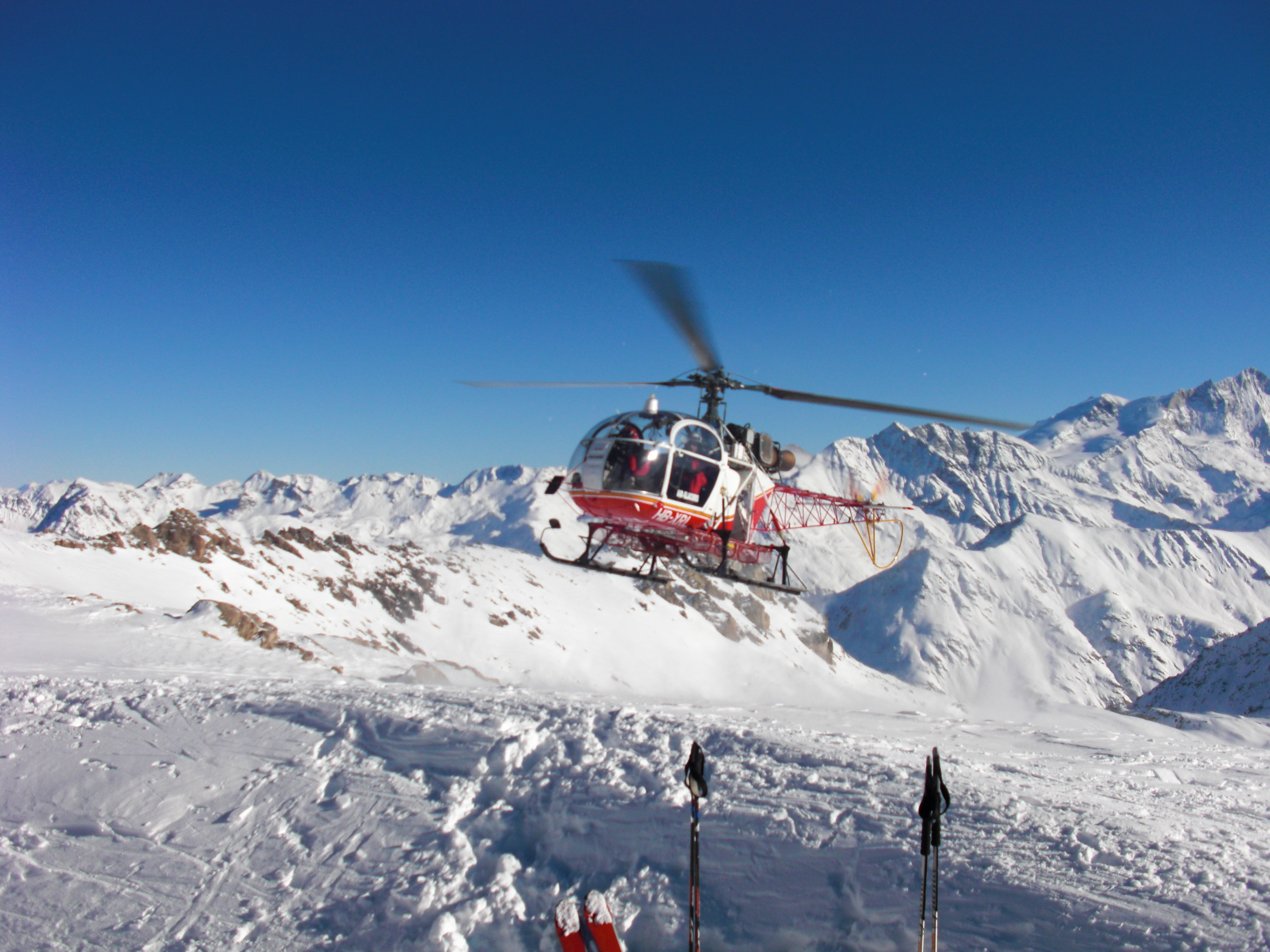 SA-315 B Lama operated by Air Glaciers approaching Cabane Becs de Bosson at 2983m, canton Valais, Switzerland